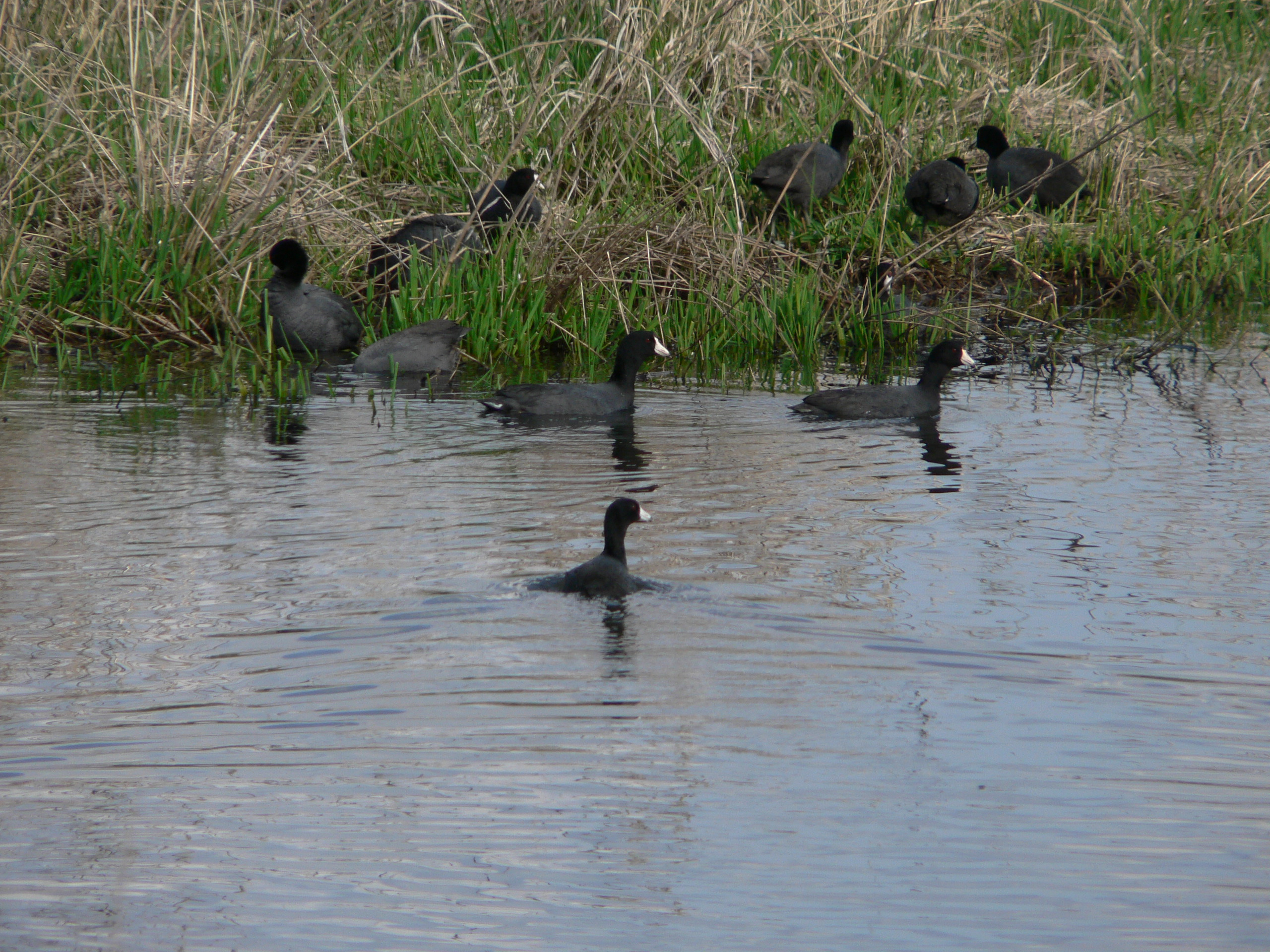 American Coot